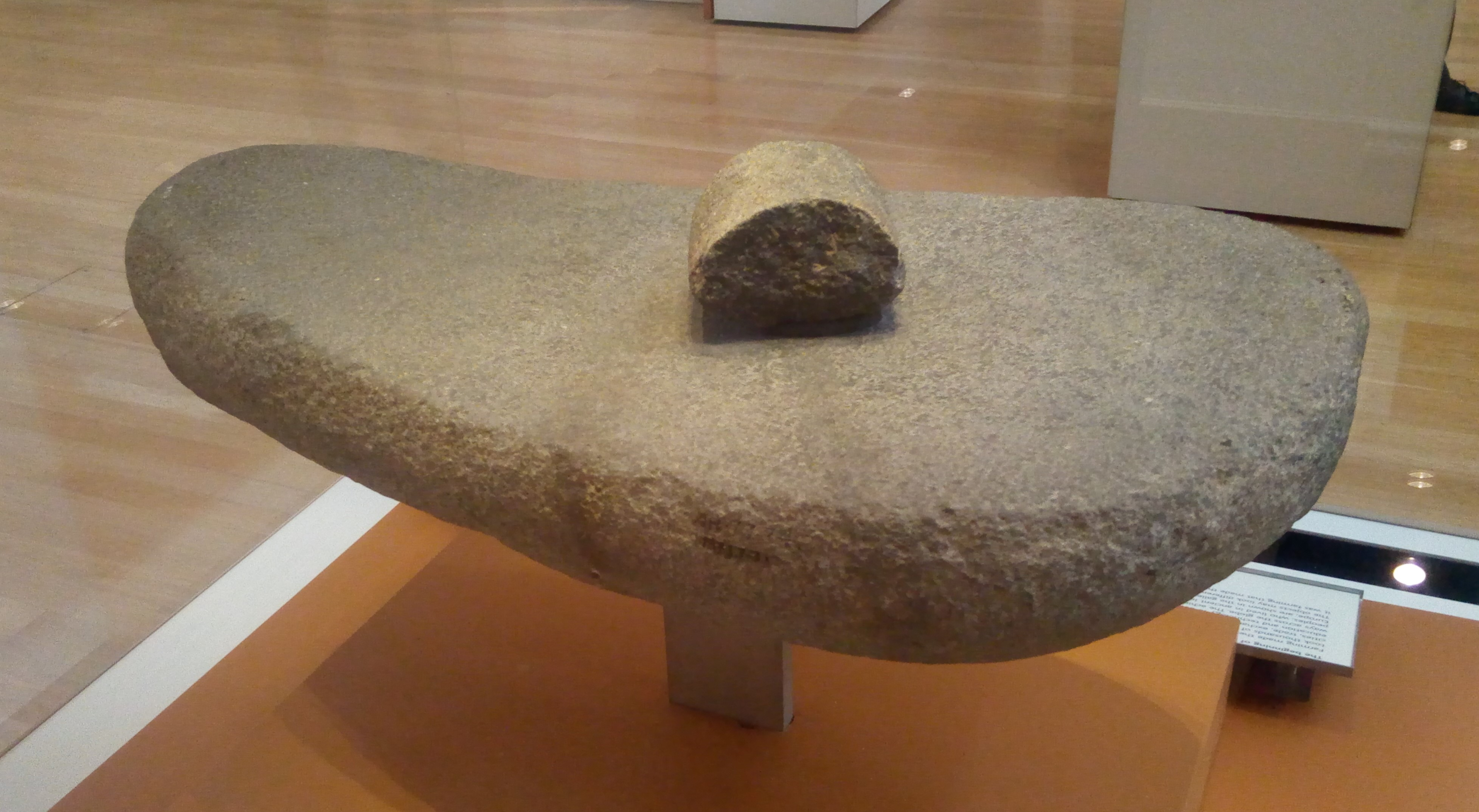 Large and small stone used to grind cereal grains, from the neolithic village of Tell Abu Hureyra, Northern Syria, c. 9500-9000 BC (Pre-pottery Neolithic A). PE 1973,0703.1 et 1974,0402.1.